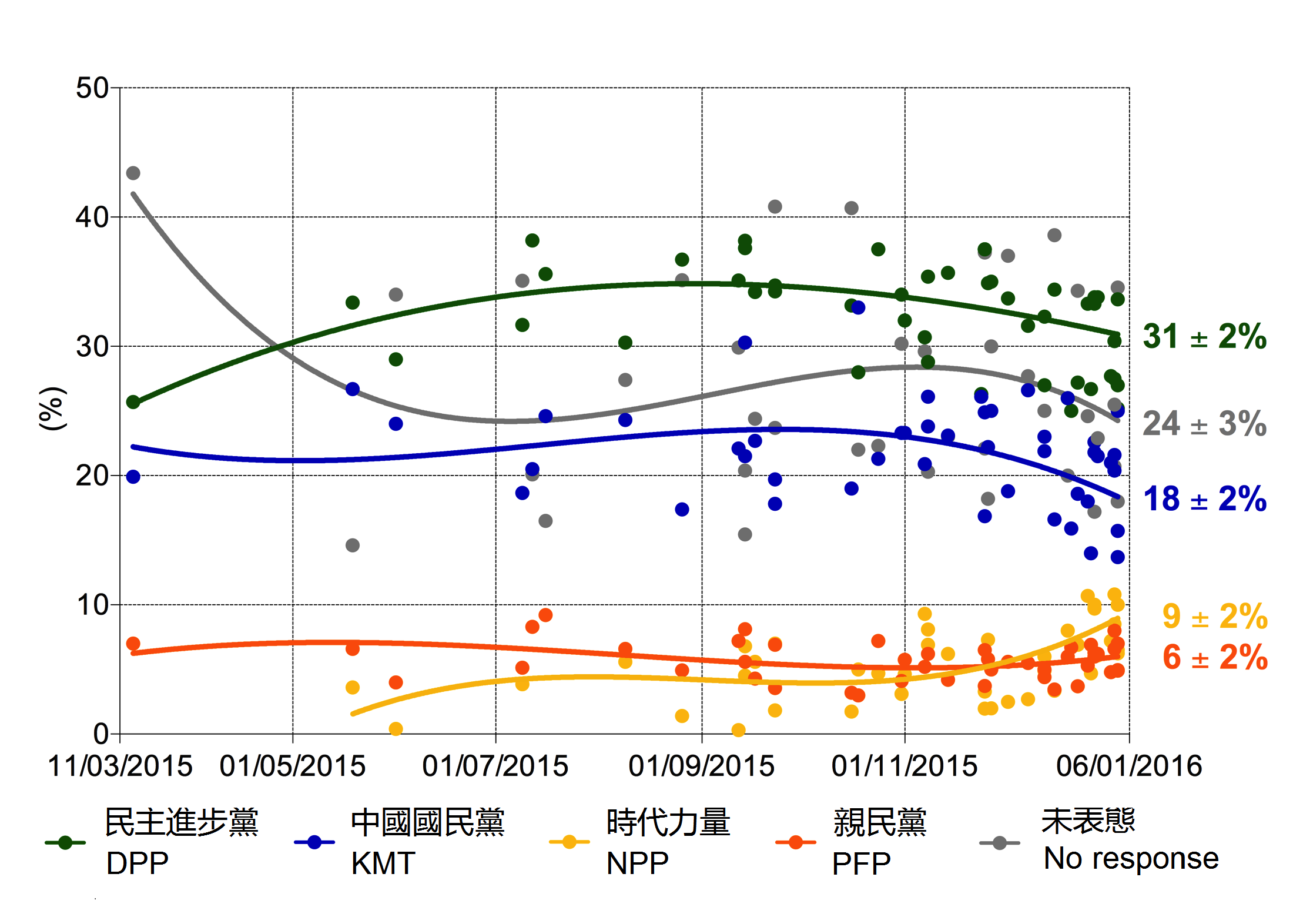 National opinion polling for the 2016 Taiwan legislative elections, with polynomial regression.